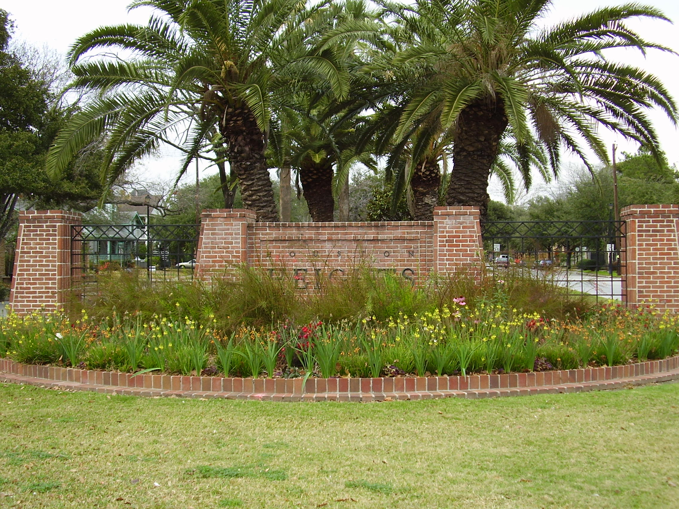 Sign of Houston Heights in Houston, Texas